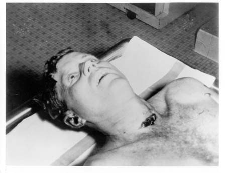 A picture of President Kennedy's head and shoulders taken at his autopsy on the night he died